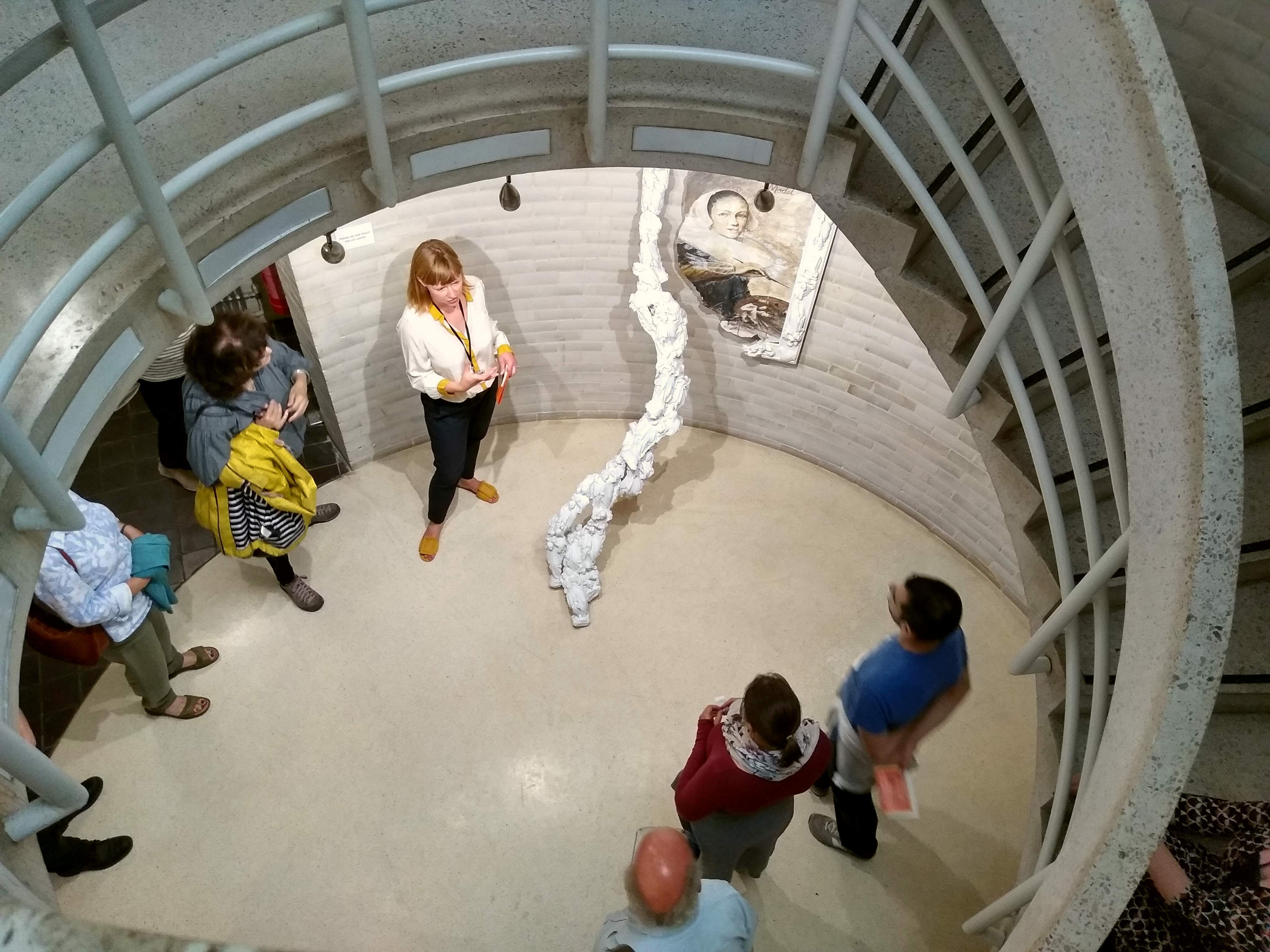 Murray Edwards College Art Collection Curator Harriet Loffler describing Earth is our Mother by Monica Sjoo in July 2019.